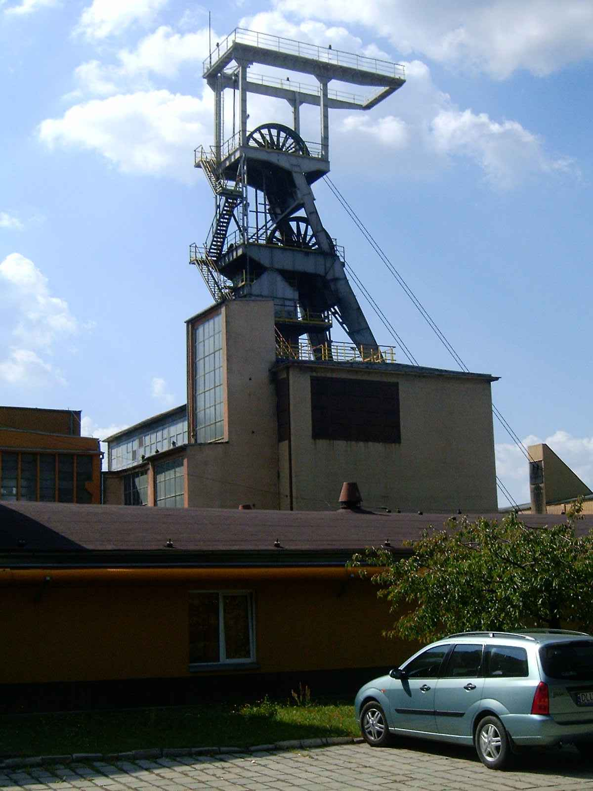 copper mine in Lubin, Poland